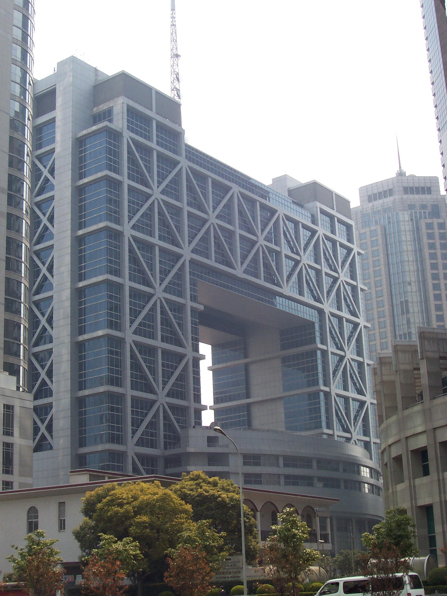 Shanghai Stock Exchange Building at Pudong